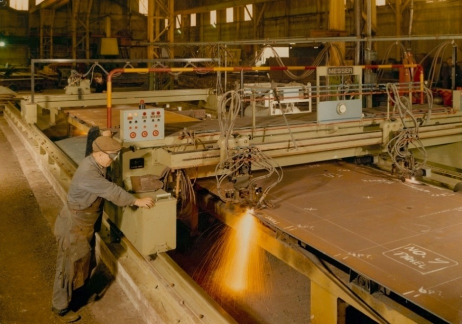 Profile burning machine in operation in the Plater’s Shed at the shipyard of John Readhead & Sons Ltd, South Shields, May 1963 (TWAM ref. 1061/1196). This set celebrates the achievements of the shipyard of John Readhead & Sons. The firm has played a significant role in the North East’s illustrious shipbuilding history and the development of South Shields. The company began in 1865 when John Readhead, a shipyard manager, entered into business with J Softley at a small yard on the Lawe at South Shields. Following the dissolution of the partnership in 1872, it continued as John Readhead & Co on the same site until 1880 when the High West Yard was purchased. After Readhead’s four sons were taken into the business in 1888 the company traded as John Readhead & Sons becoming a limited company in 1908. In 1968 the company was absorbed by the Swan Hunter Group and in 1977 became part of the nationalised British Shipbuilders. In the same year the last vessel was launched and the site was sold off in 1984. Readheads was prolific and built over 600 ships from 1865 to 1968, including 87 vessels for the Hain Steamship Company Ltd and over forty for the Strick Line Ltd. The shipyard also built four ships for the Prince Line, founded by Sir James Knott. The firm built vessels, which were involved in the major conflicts of the Twentieth Century. During the First World War they built patrol vessels and ‘x’ lighters (motor landing craft used in the Gallipoli campaign) for the Admiralty. During the Second World War the firm built tankers for the Normandy Landings. (Copyright) We're happy for you to share this digital image within the spirit of The Commons. Please cite 'Tyne & Wear Archives & Museums' when reusing. Certain restrictions on high quality reproductions and commercial use of the original physical version apply though; if you're unsure please .